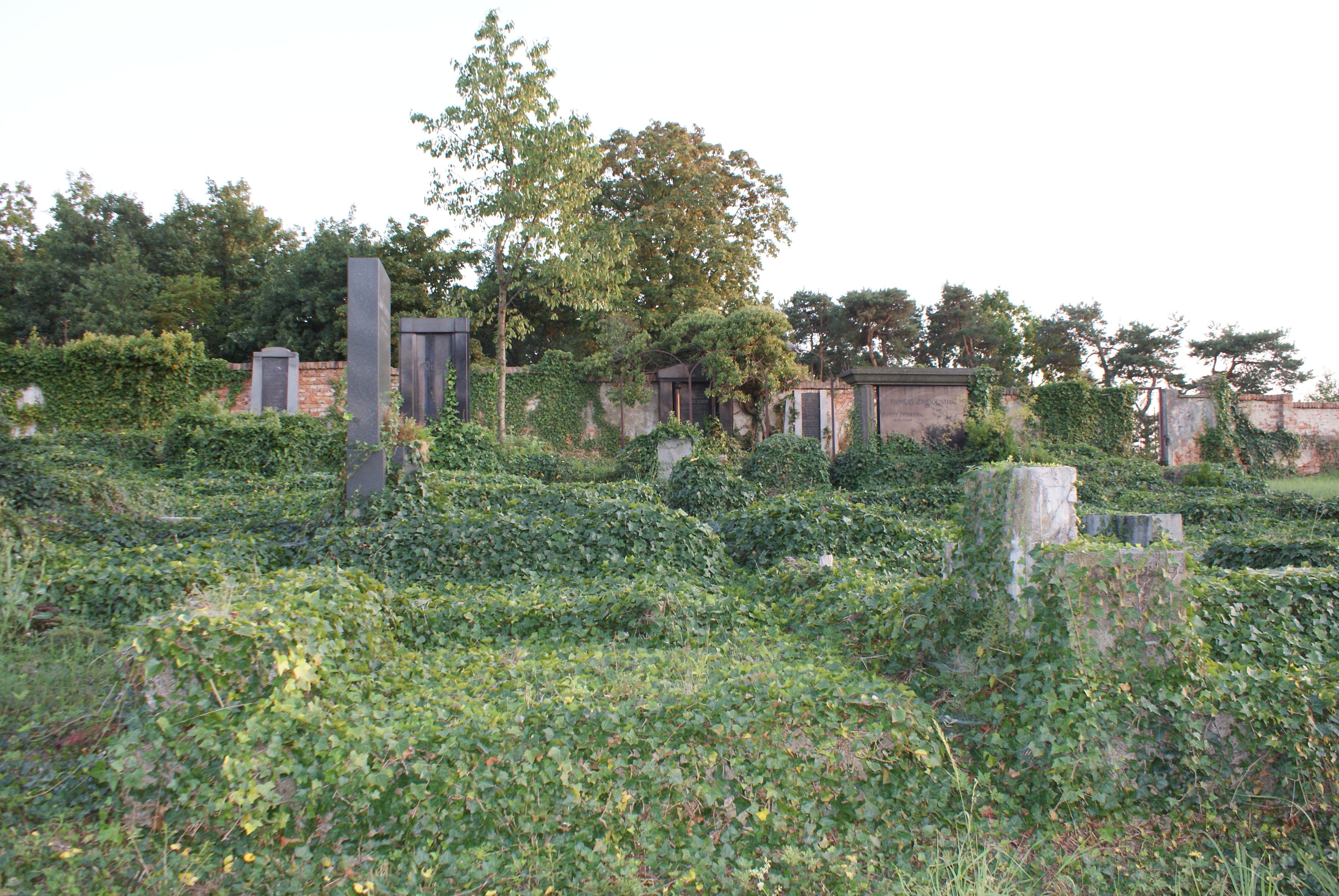 Znojmo, a town in Znojmo District, Czech Republic, Jewish cemetery